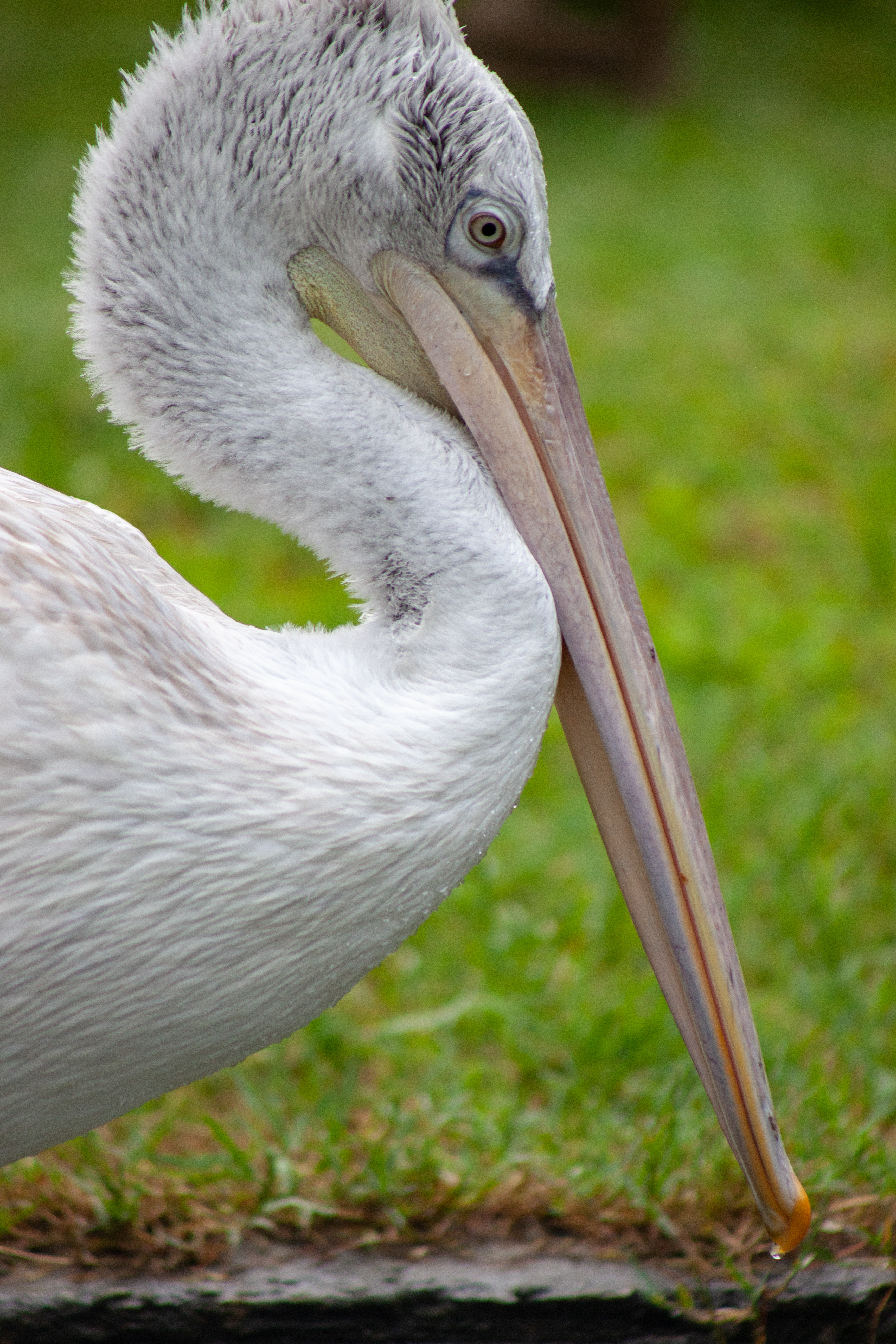 A Dalmatian pelican in Divjakë-Karavasta National Park in Albania